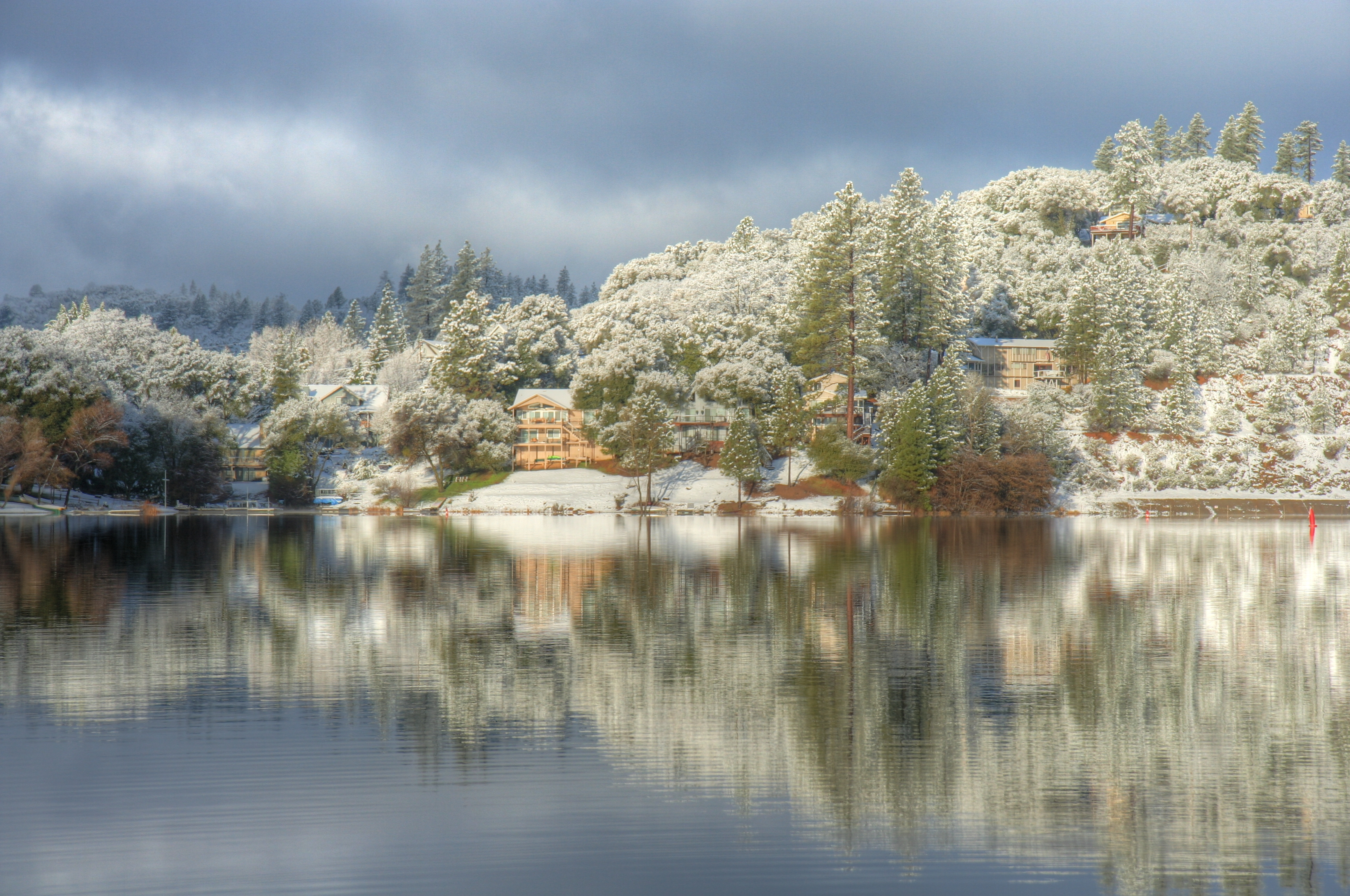 A view across a calm Pine Mountain Lake (Groveland, CA) toward the Dunn Court area. The trees and homes have a light dusting of snow.